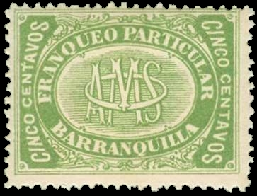 A 5c stamp of the private post of Octavio A.S. Mora.